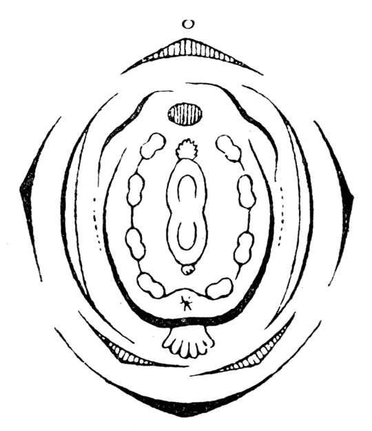 Diagram of a flower of Polygala myrtifolia (Polygalaceae)